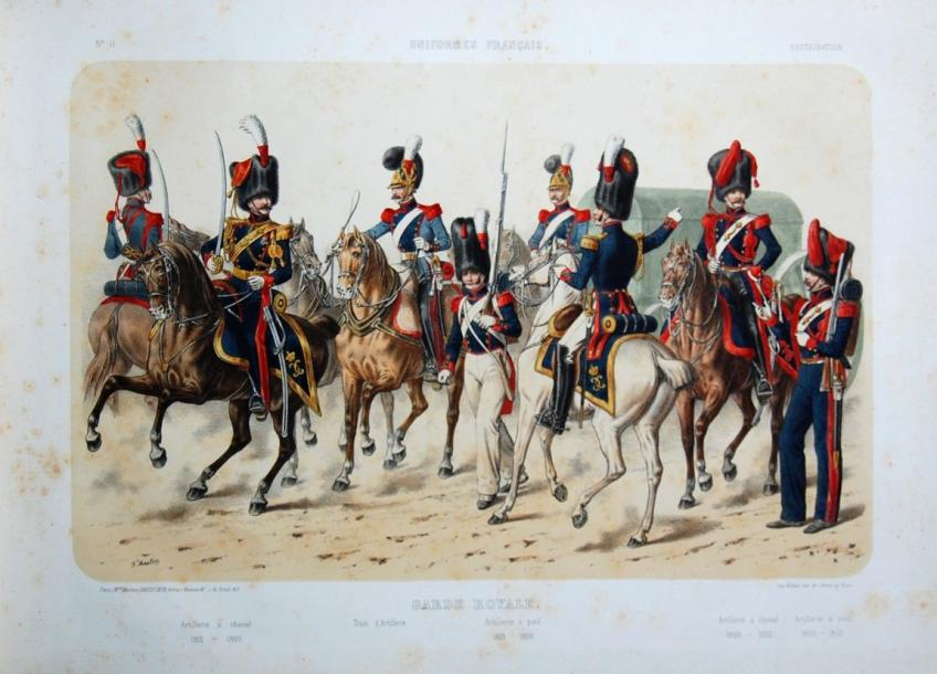 Artillery of the Royal French Guard